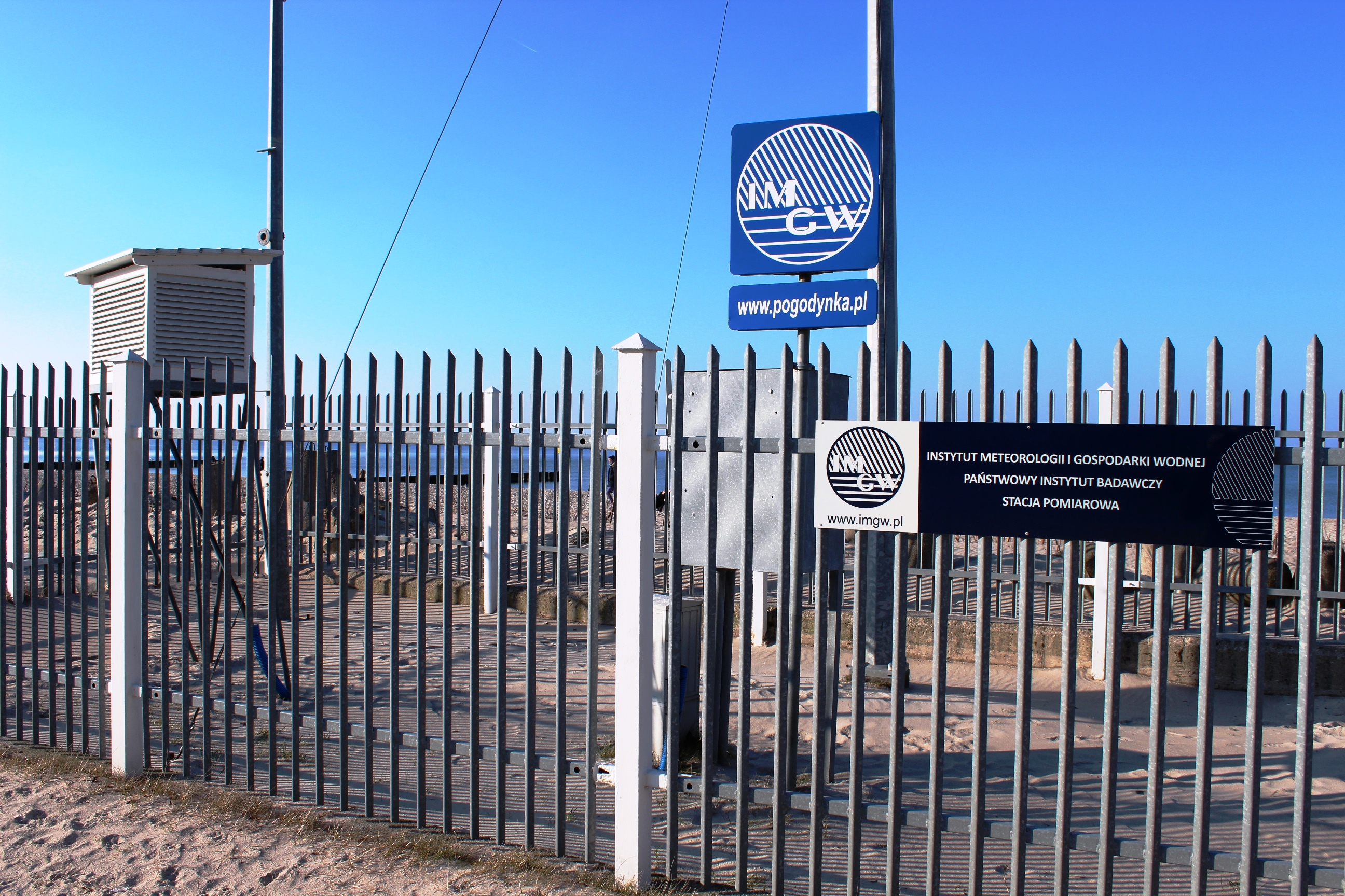 Station of IMGW in Kołobrzeg